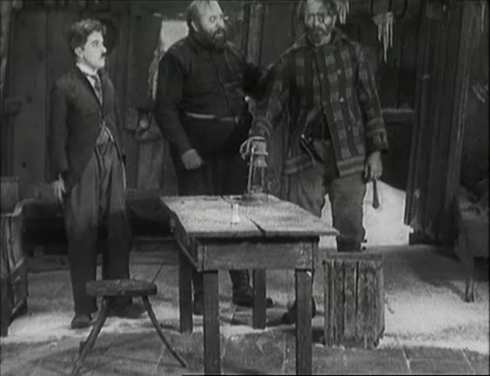 Scene from the movie The Gold Rush. 1925.